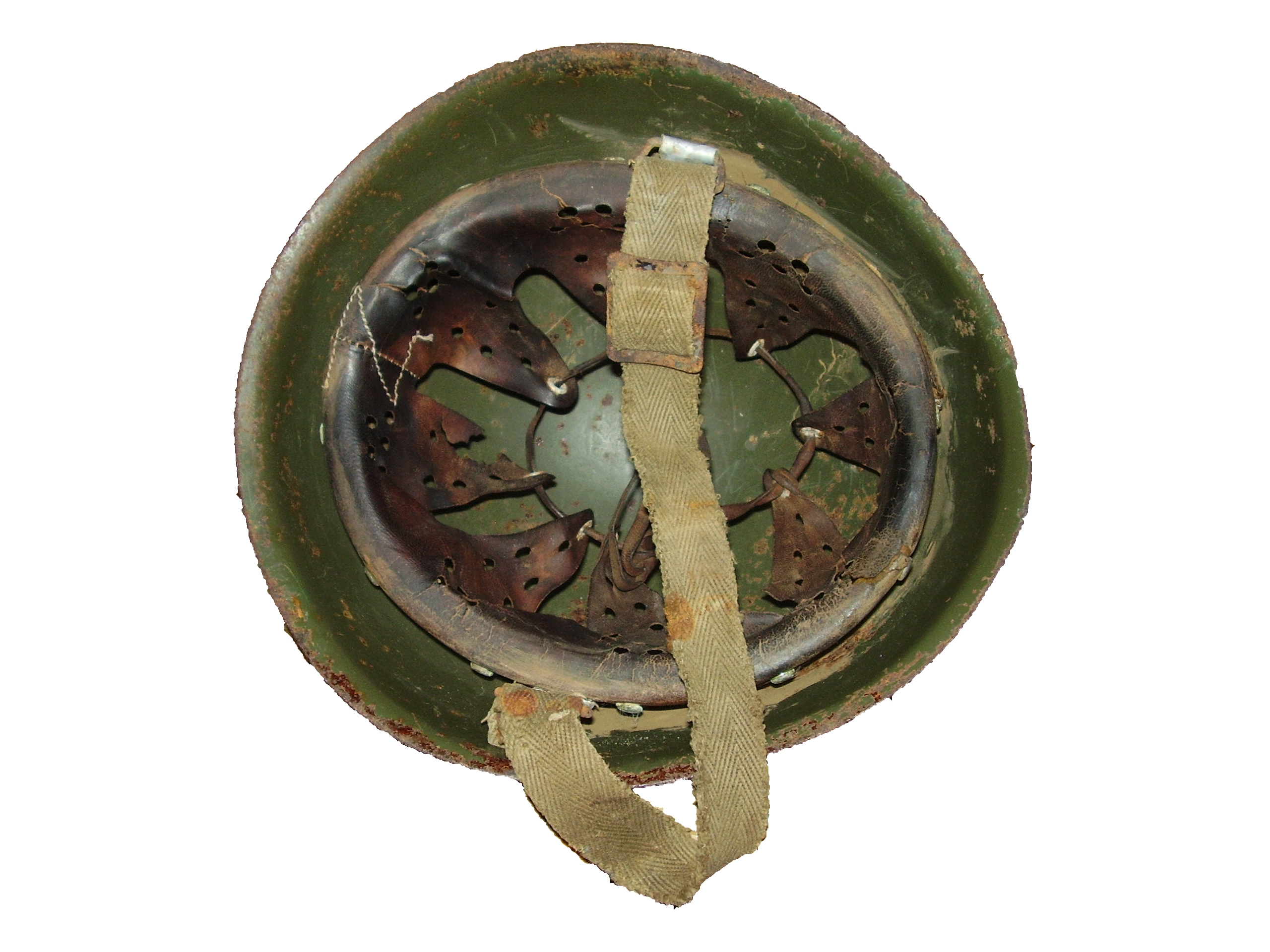 Helmet M33 Italian Army year 1956